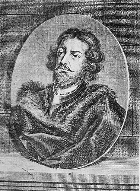 Dimitrie Cantemir, Polish woodcut